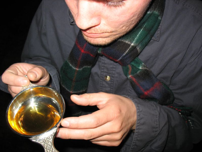 Sir Carl taketh a sip of Laphroig from the quaich (Arthur's Seat, Edinburgh)